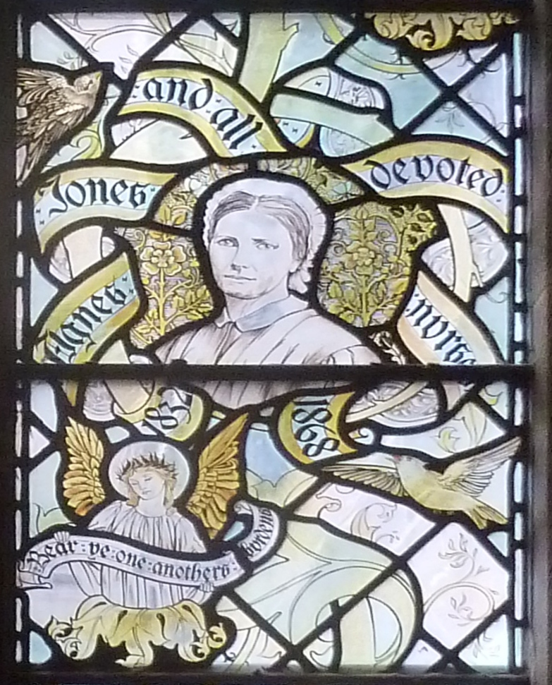 One of a set of windows on the staircase leading to the Lady Chapel in Liverpool Anglican cathedral. They commemorate the lives of 'noble women', who have made some significant contribution to the world in the service of others. The windows combine portraits of well-known heroines like Grace Darling, shown here but also honour more obscure women, who may only have been known locally or in their own time. These include, in this particular window, Mary Rogers, a stewardess who made a personal sacrifice during a shipwreck in 1899, Kitty Wilkinson, a local laundress, who set up an early wash house in Liverpool in 1842 and Agnes Jones, the first trained nurse at the local workhouse infirmary, who looked after the sick and the poor of Liverpool and herself died of typhus, caught during her nursing duties.